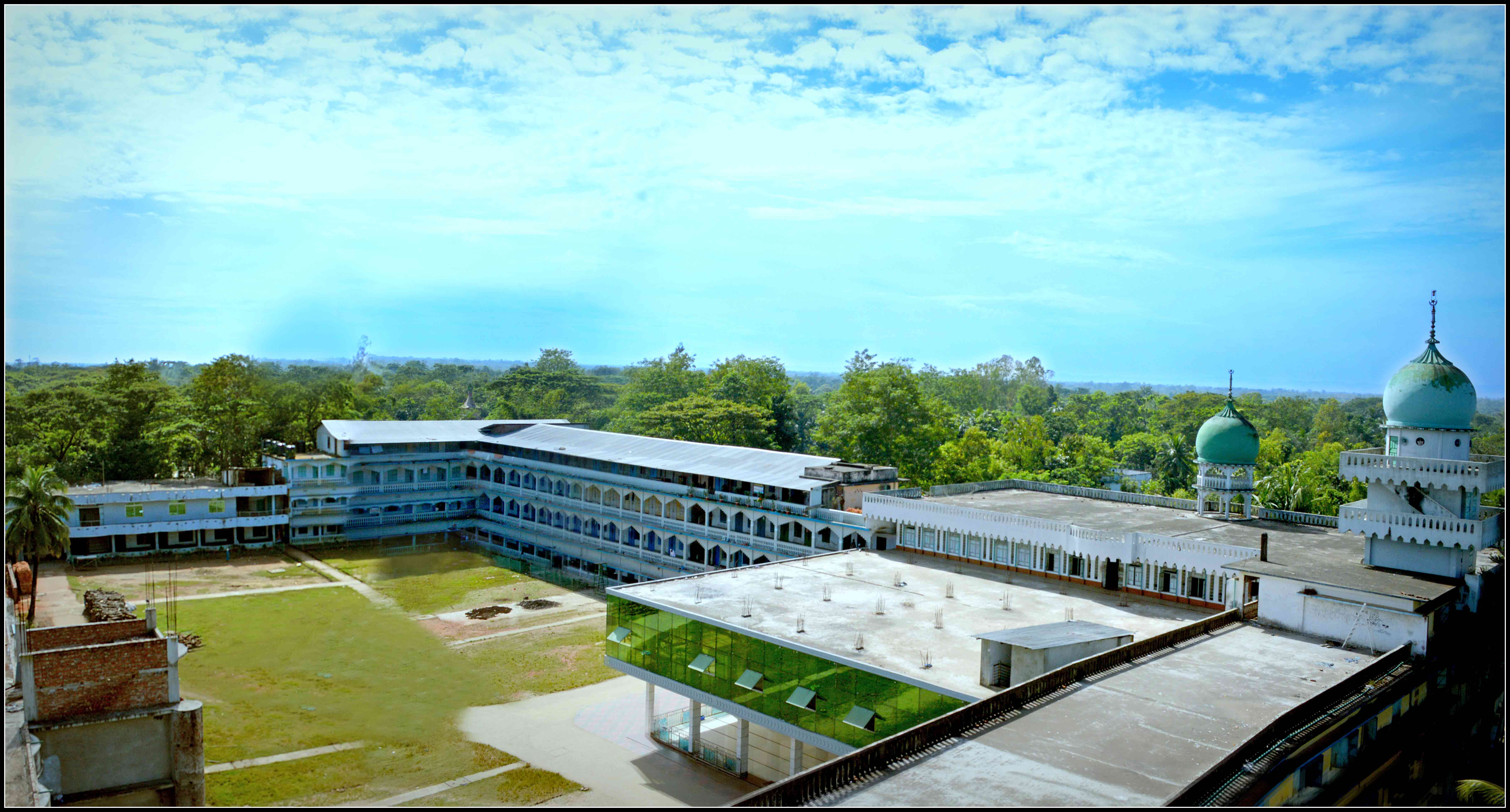 Photo of Al-Jamiah Al-Islamiah Obaidia Nanupur